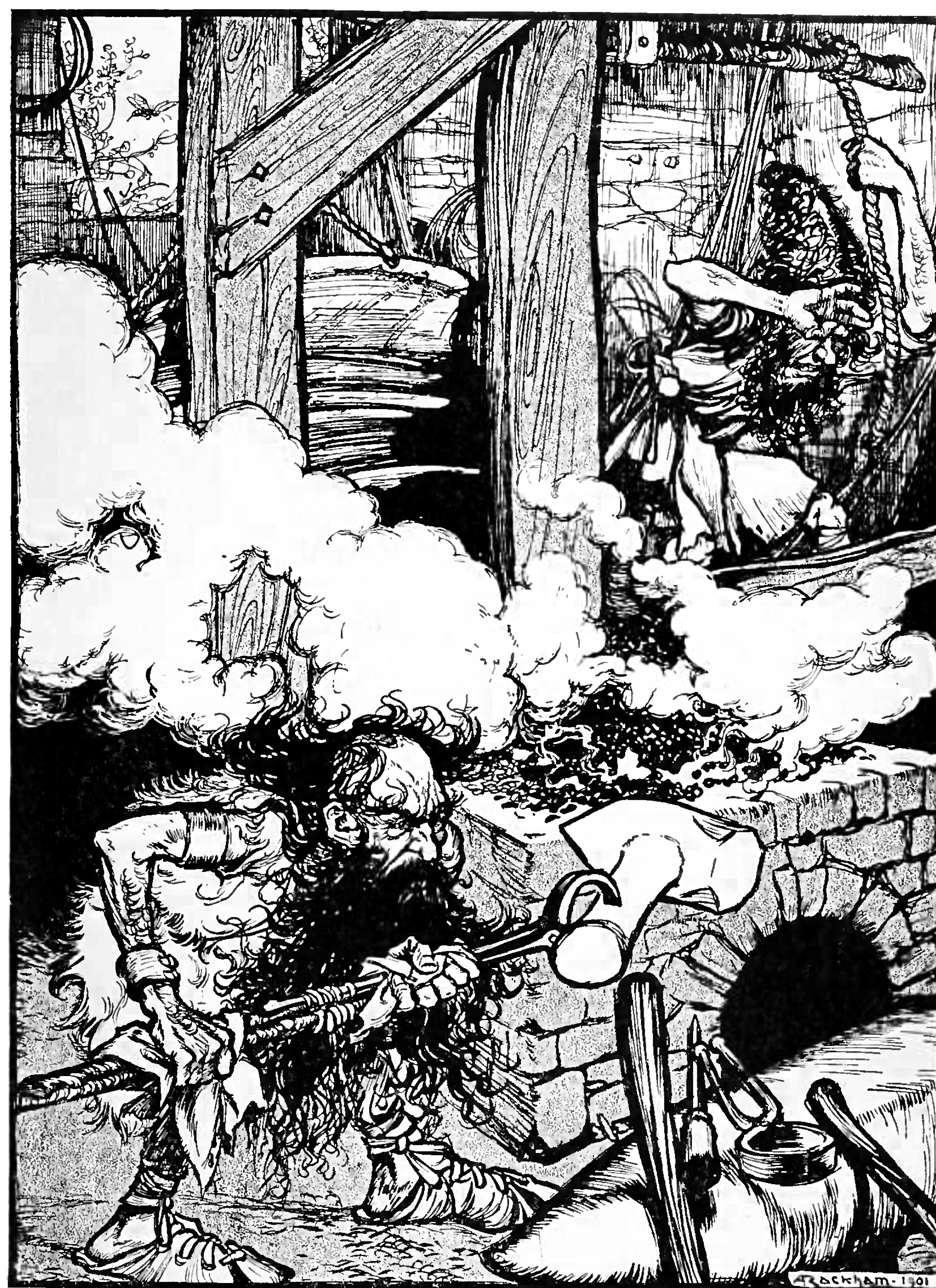 "Once again the buzzing fly came in at the window" by Arthur Rackham. As described in Skáldskaparmál, Loki, in the shape of a fly, disturbs the dwarf Brokkr who is working the bellows while his brother Eitri is making the hammer Mjölnir.